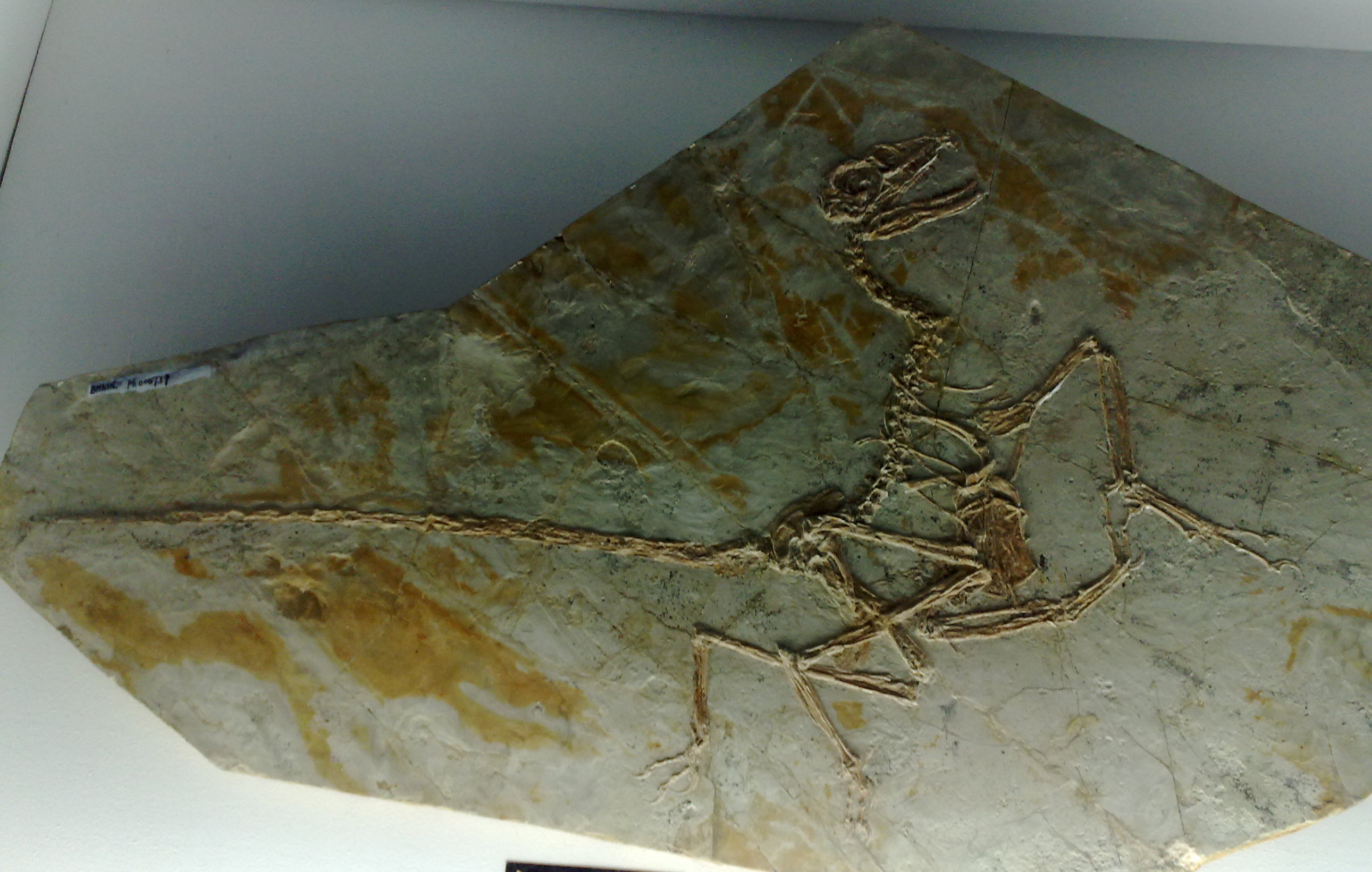 Jeholornis